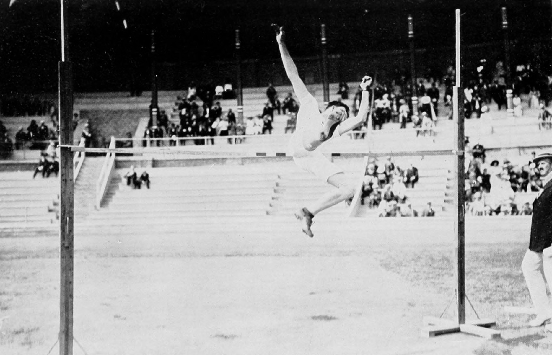 Alma Richards during the high jump competition at the 1912 Summer Olympics.